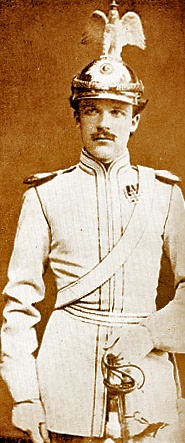 Philipp Fürst zu Eulenburg und Hertefeld